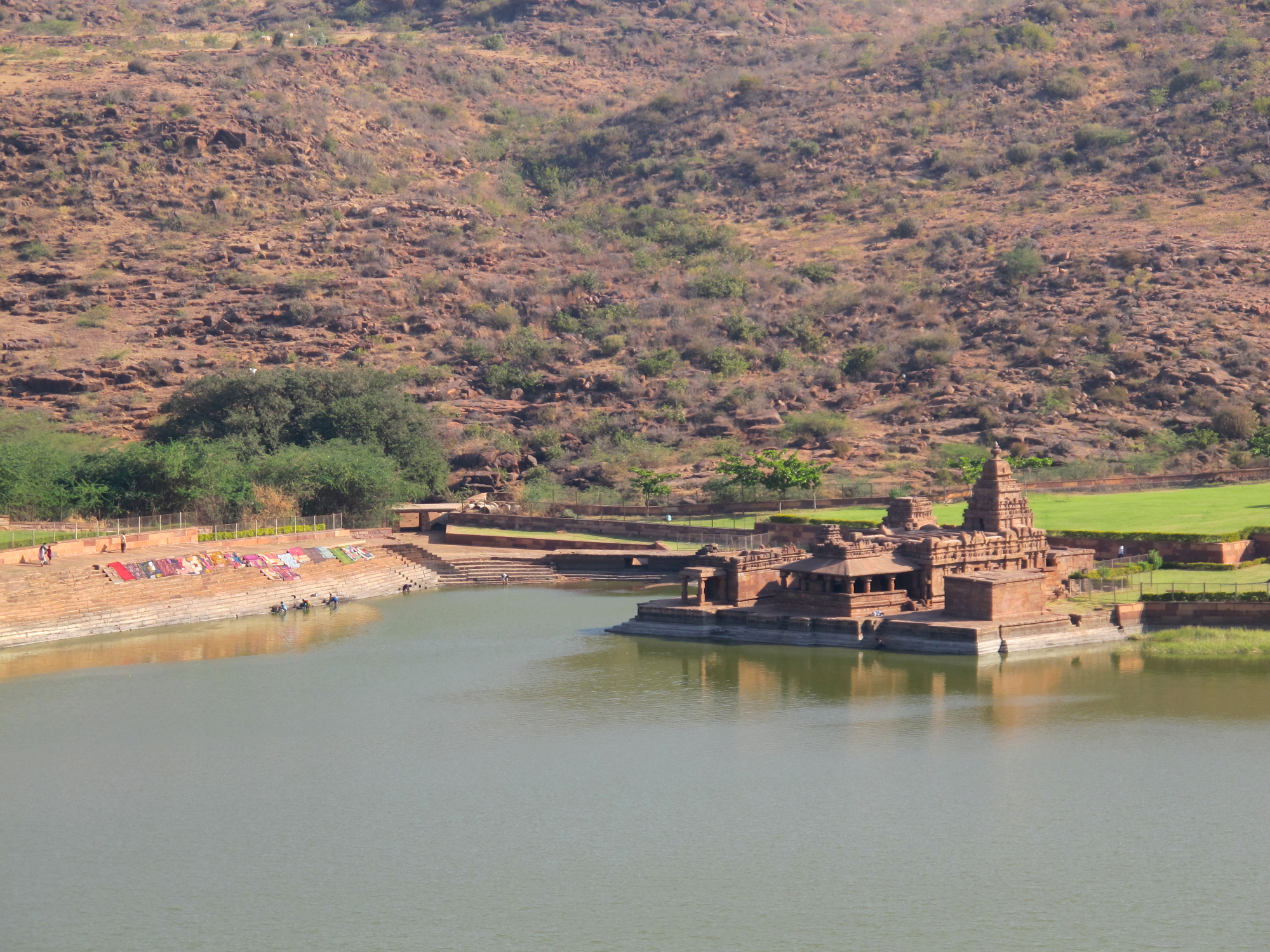 Bhutanatha temple complex in Badami with Agastya Lake